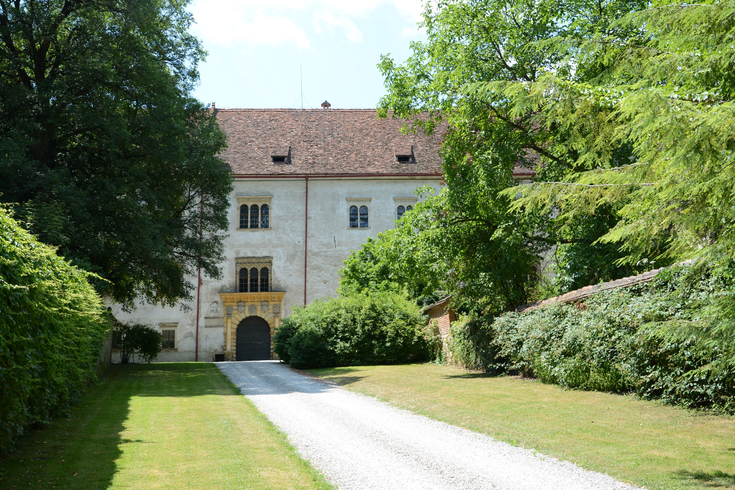 Castle Thannhausen